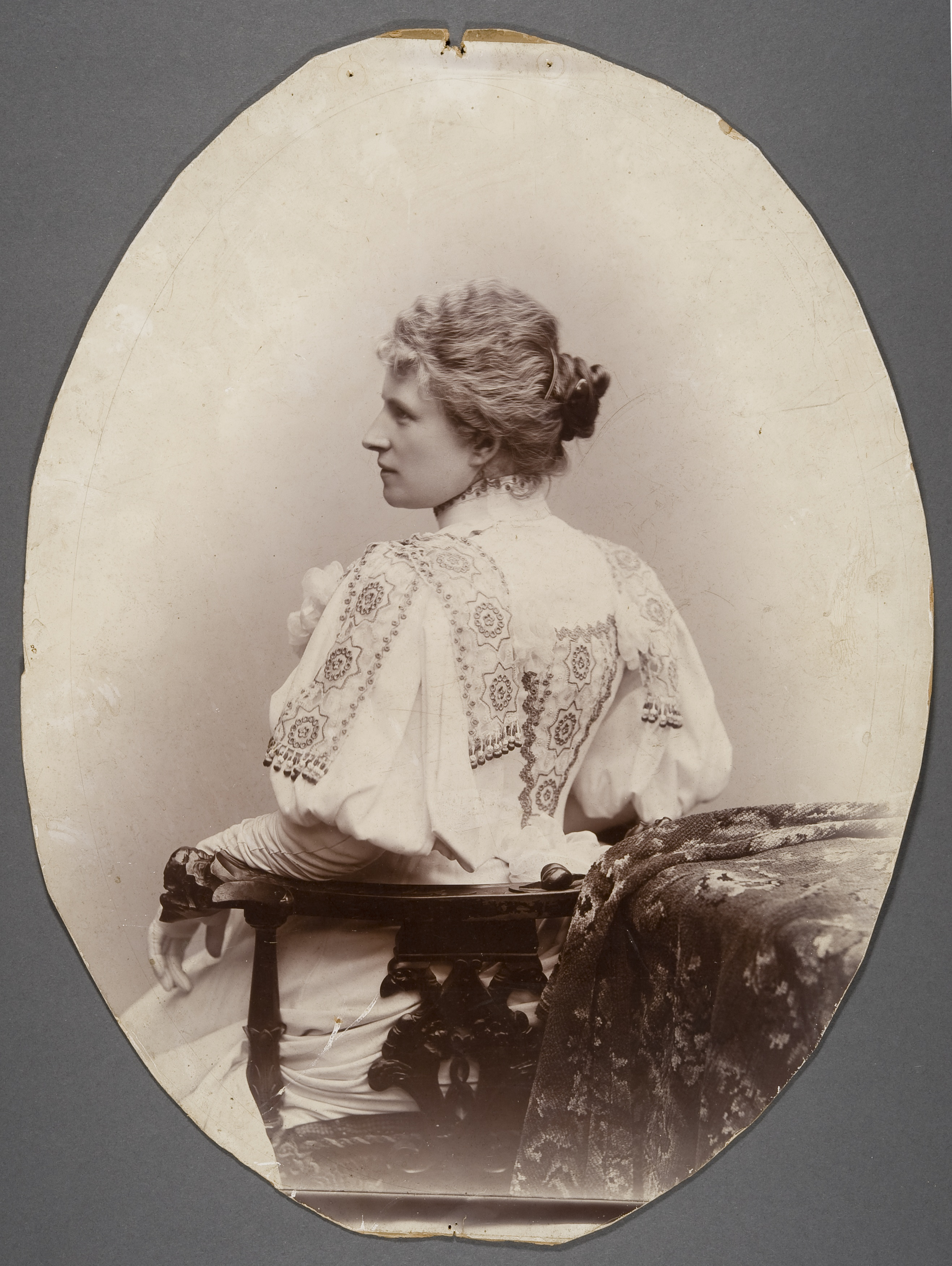 Photograph of the Finnish singer Alexandra Ahnger (1859–1940).